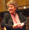 Marion Nestle at a 2009 Food Panel